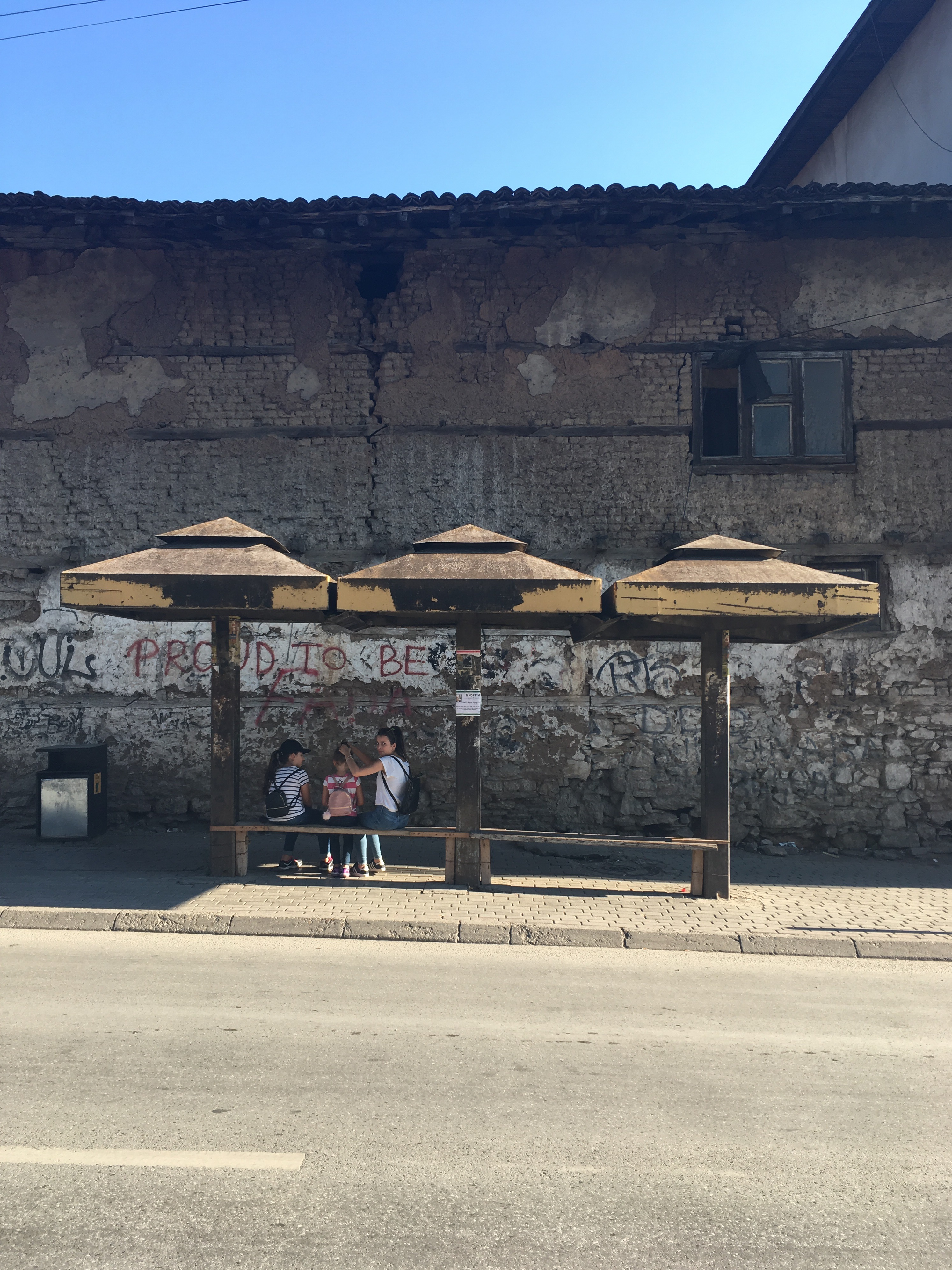 Bus station in Prishtina. "Waiting Europe"